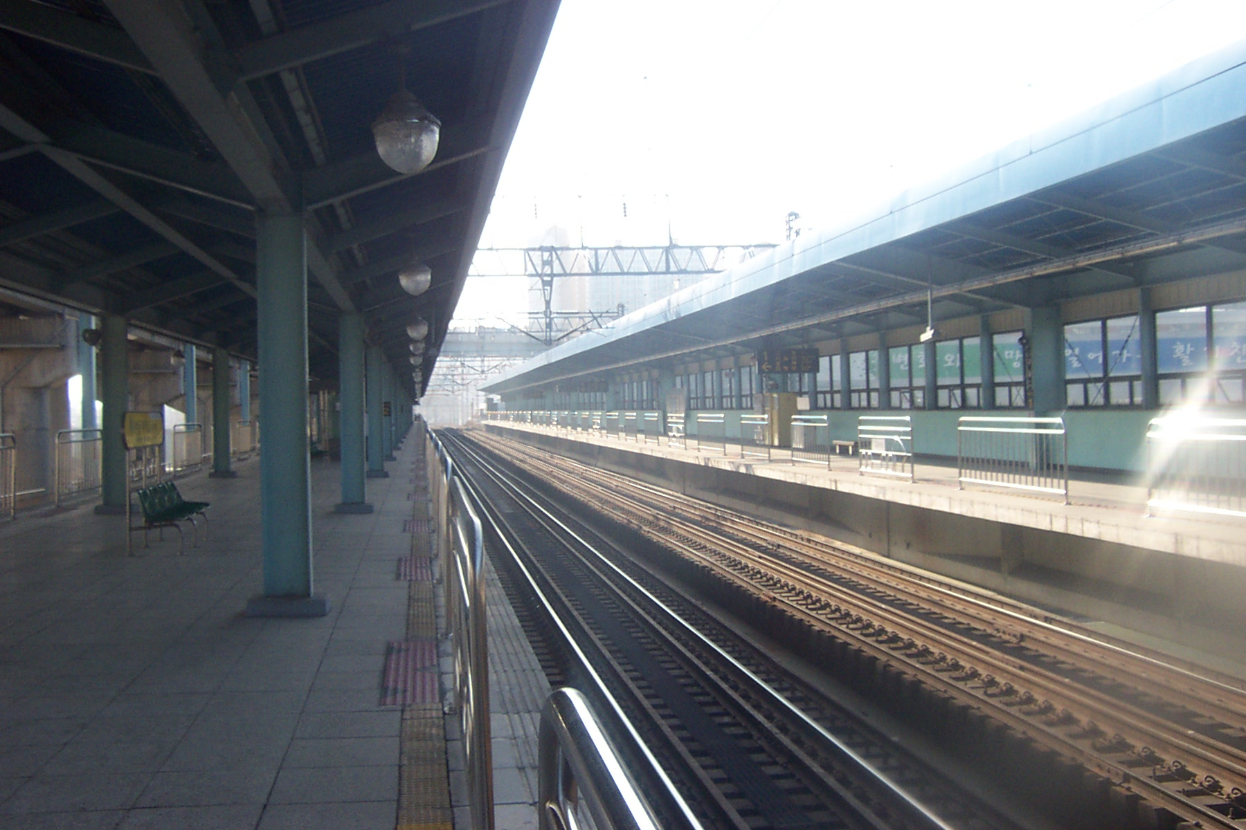 Guil Station platform (1st floor)